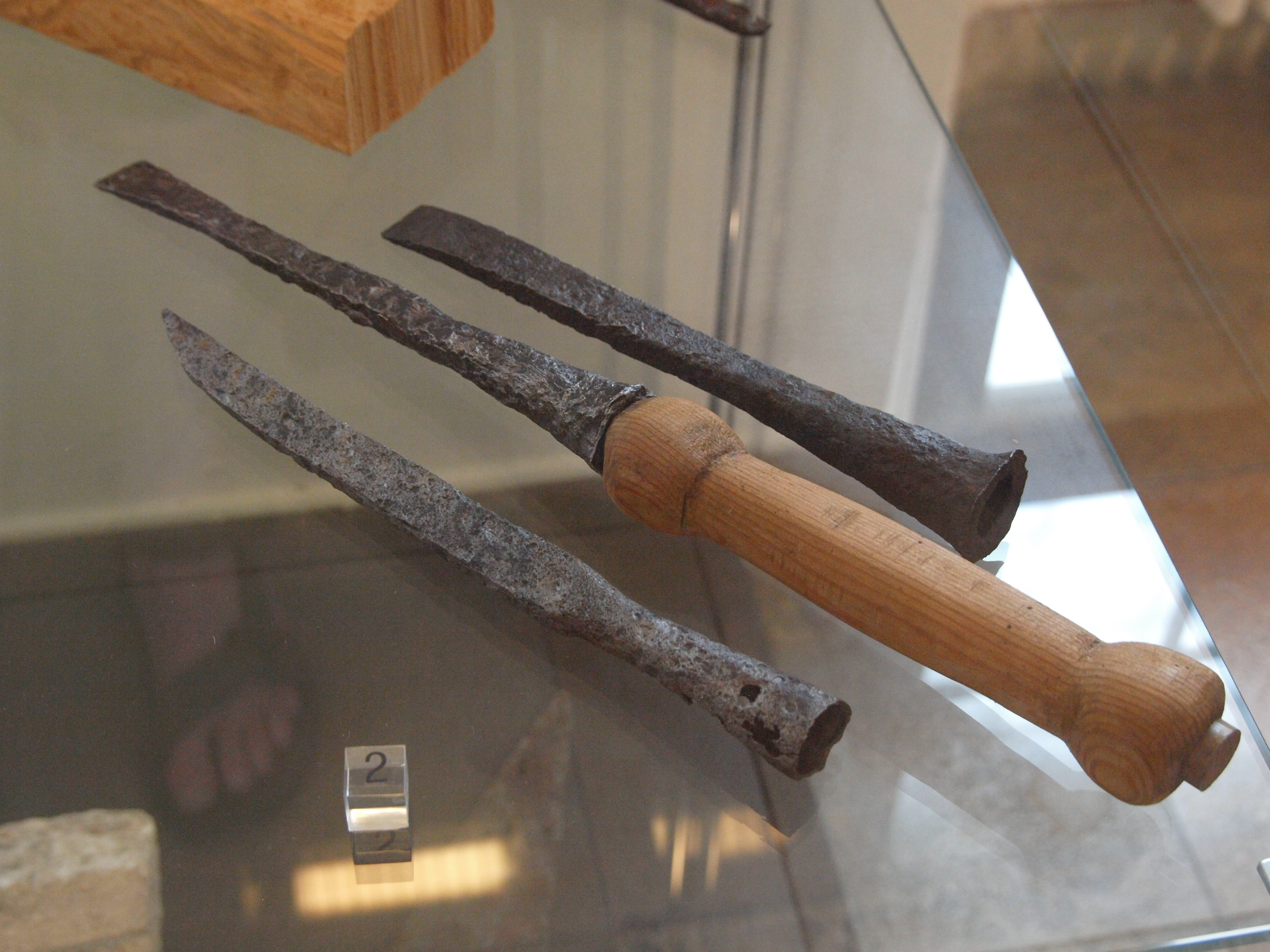 Roman chisels with reconstructed handle, approx. 1st to 2nd century AD found in Regensburg, Germany. Photographed at Historisches Museum Regensburg.